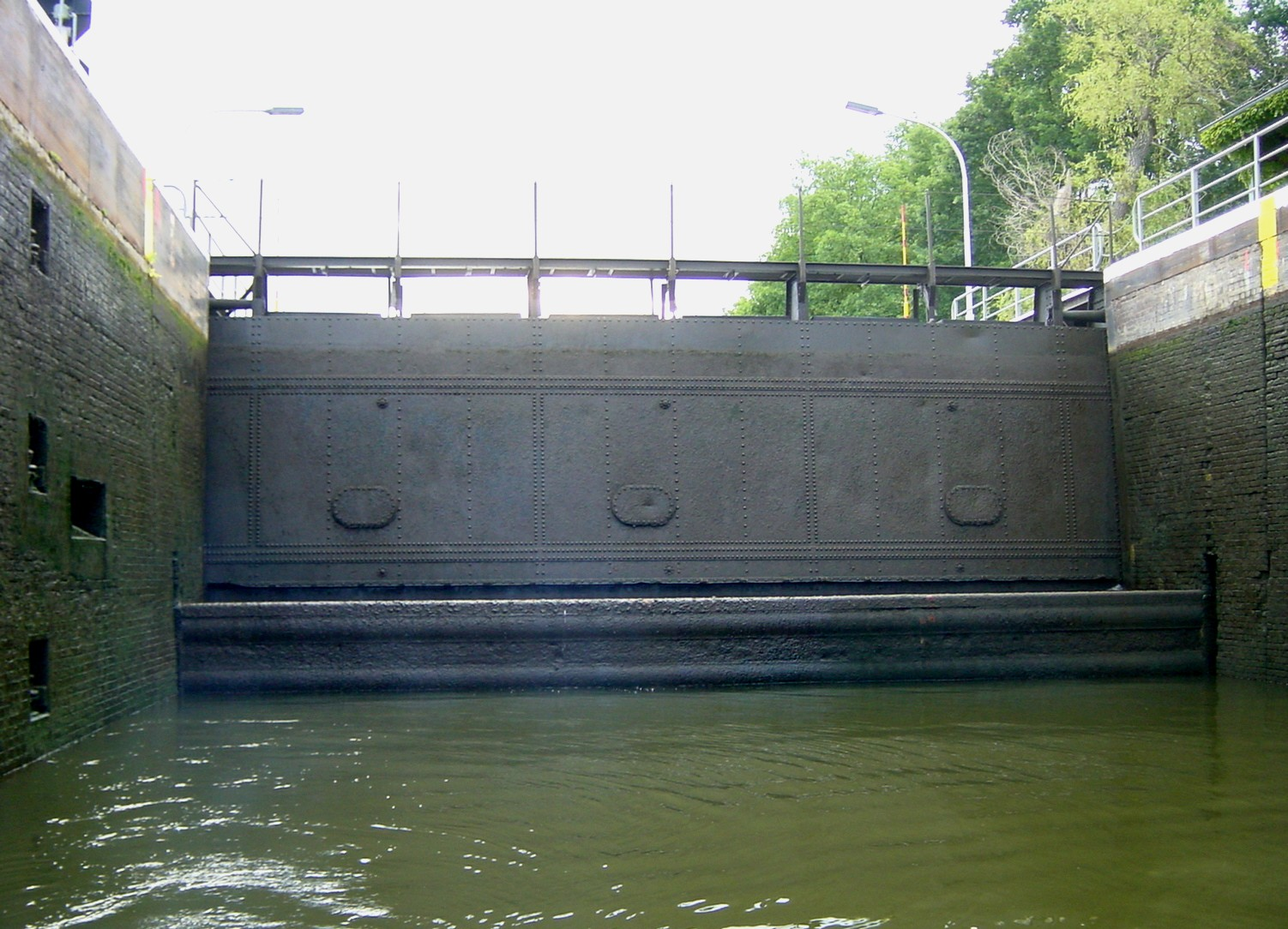 lock, sluice